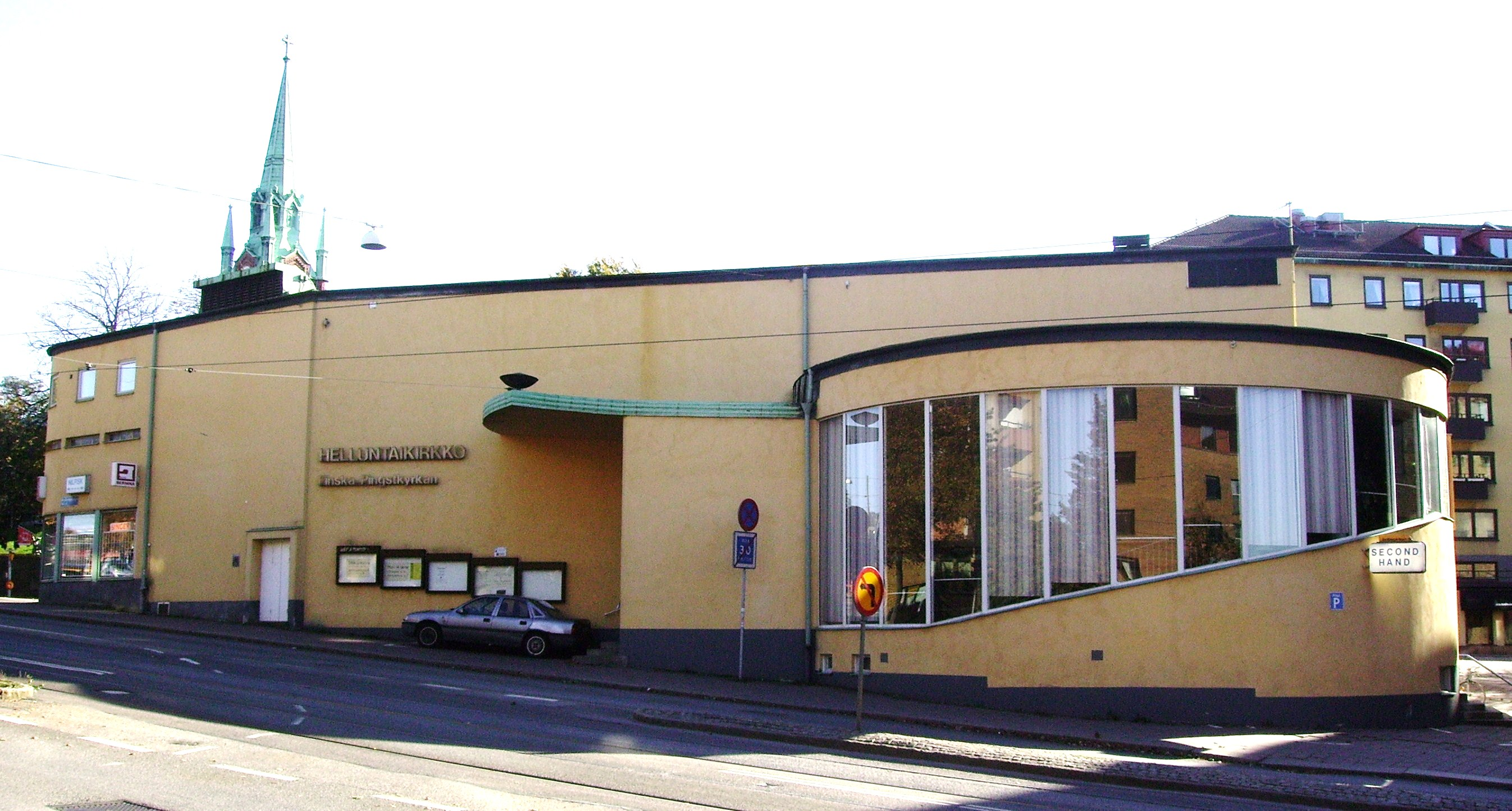 Picture of Flamman (former cinema) in Göteborg, Sweden.